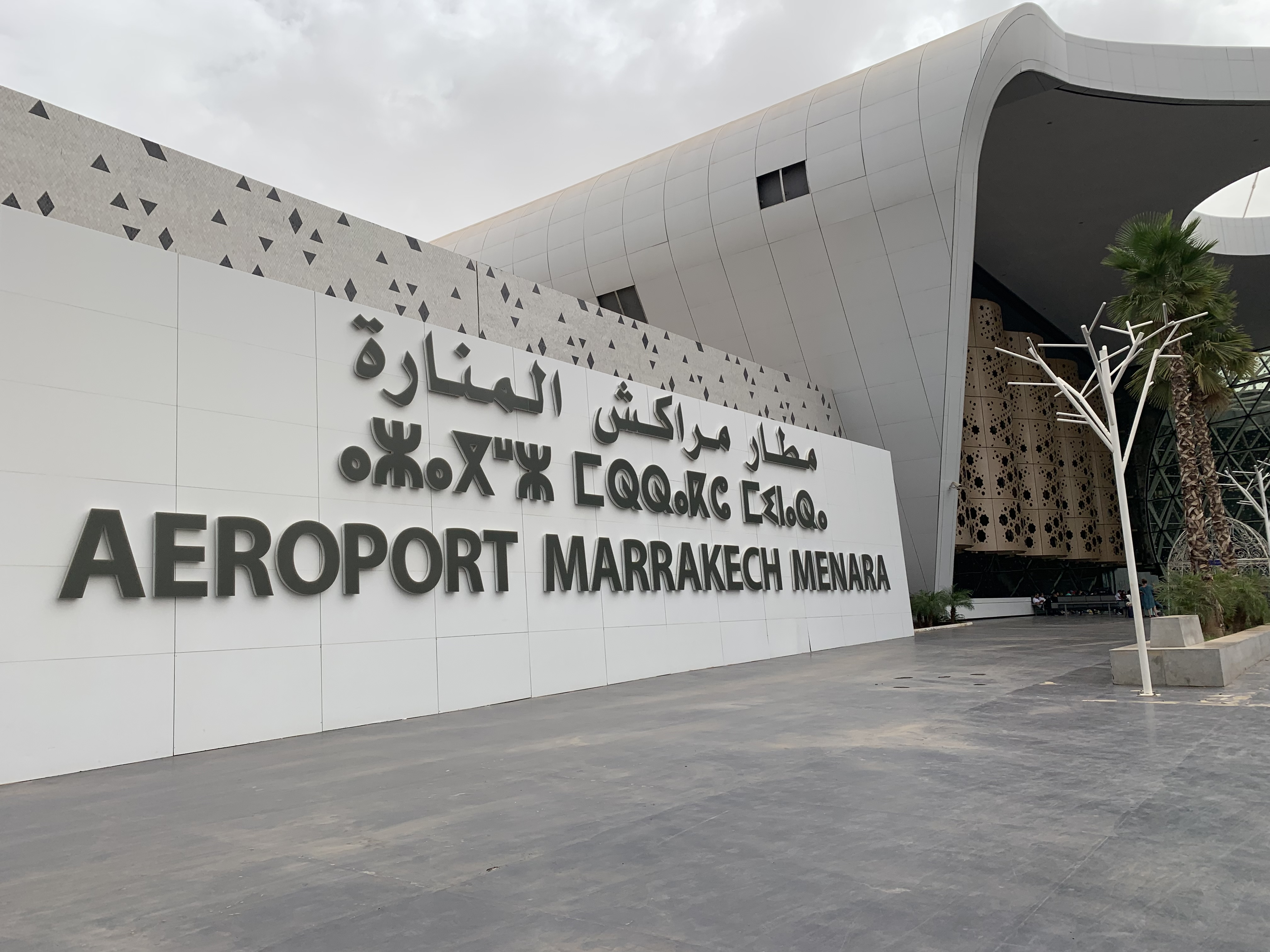 Entrance of Marrakesh Menara Airport